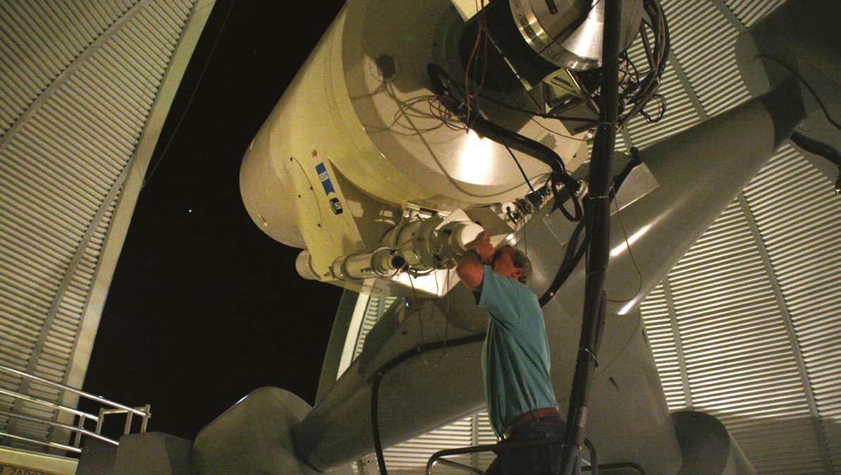 ESA operates its Optical Ground Station (OGS) at the Teide Observatory on Tenerife, Spain, where a Zeiss 1 m-diameter telescope is used to survey and characterise objects near the ‘geostationary ring’ some 36 000 km above the equator. The telescope hasRitchey­Chrétienoptics and highly efficient digital cameras. The telescope can detect and track objects around geostationary altitudes down to 10–15 cm in size. With this performance, the ESA telescope is top­ranked worldwide. The data provided by the telescope are a major input for space debris environment models. The telescope is also capable of conducting photometric observations, to determine the ‘colour’ of objects. This enables the material properties of unknown objects to be characterised and provides valuable information on the potential origin of newly detected fragments. In almost 60 years of space activities, more than 5250 launches have resulted in some 42 000 tracked objects in orbit, of which about 23 000 remain in space and are regularly tracked by theUS Space Surveillance Networkand maintained in their catalogue, which covers objects larger than about 5–10 cm in low orbit and 0.3–1 m at geostationary altitudes. Only a small fraction – about 1200 – are intact, operating satellites today. More information Space debris